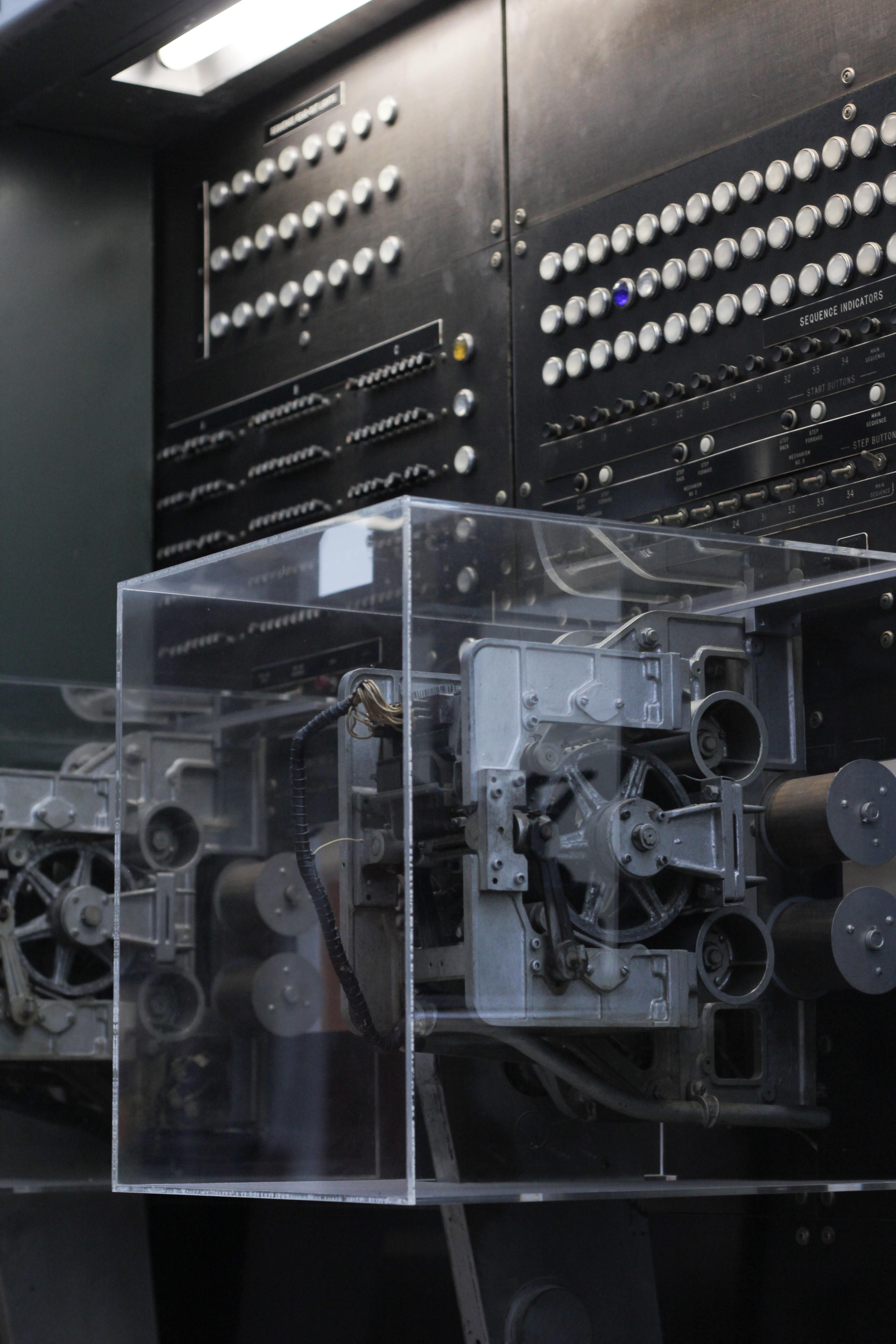 IBM Automatic Sequence Controlled Calculator (ASCC) - Harvard Mark I Computer - as seen in Science Building at Harvard University